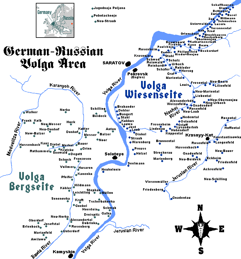 Main Volga German colonies in Russia